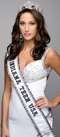 Crown and banner photo of Miss Indiana Teen USA 2009